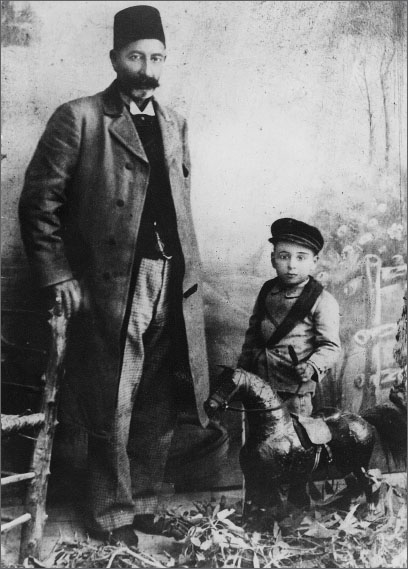 Portrait of Wasif Jawhariyyeh with his father, Jiryis Jawhariyyeh circa 1900.